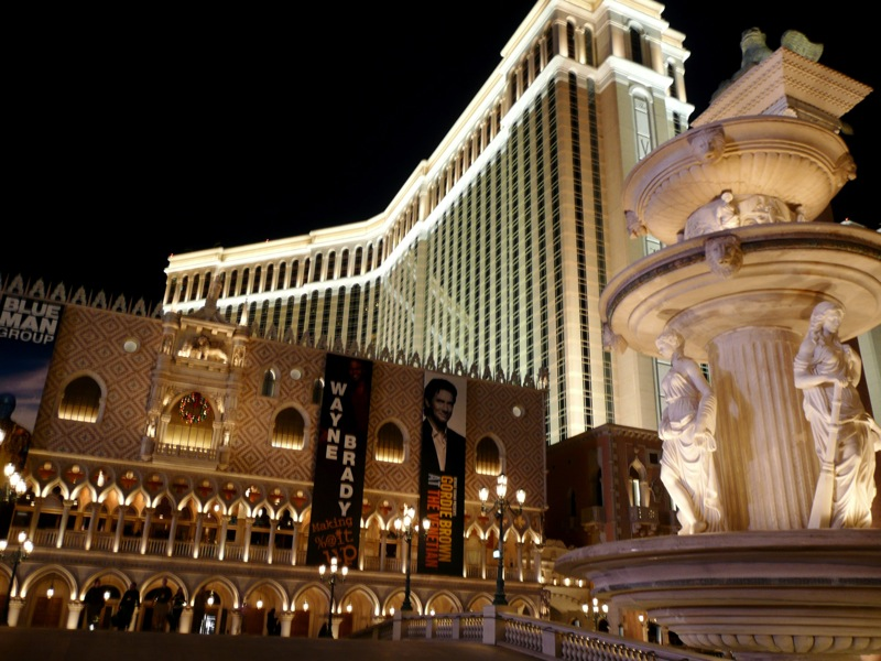 The Venetian Resort Hotel Casino is a Venice-themed hotel and casino located on the Las Vegas Strip in Paradise, Nevada, on the site of the old Sands Hotel. The Venetian is owned and operated by the Las Vegas Sands Corporation. The Venetian has 4,049 suites and a 120,000 square foot (11 000 m²) casino. It is located on the east side of the Strip, between Harrah's and the Wynn Las Vegas. Combined with the adjacent Sands Expo Convention Center and The Palazzo Hotel and Casino Resort, The Venetian is a part of the largest hotel and resort complex in the world --- featuring 7,074 hotel rooms and suites.